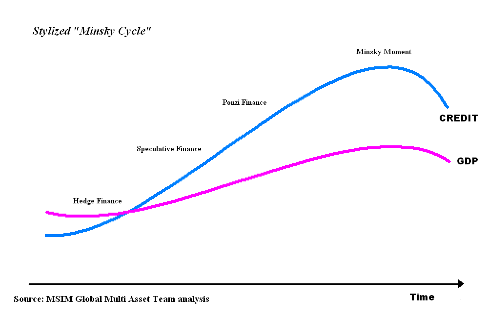 Graph showing different phases of Minsky cycle.